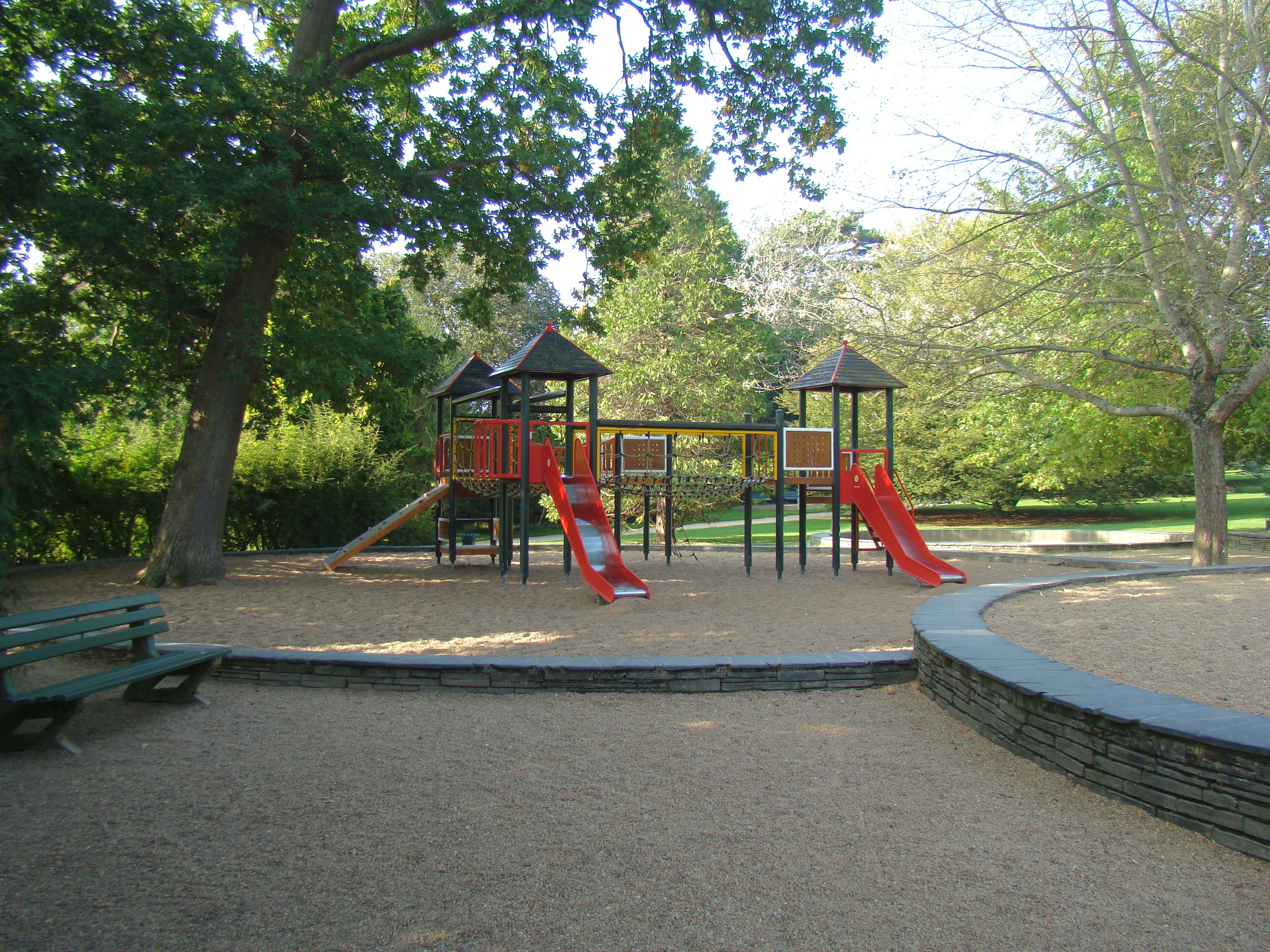 Playing area in Thabor park, Rennes, France.